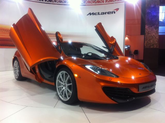 2011 Mclaren You can check out further info about the Australian release of the all-new McLaren here at; NRMA Drivers Seat.